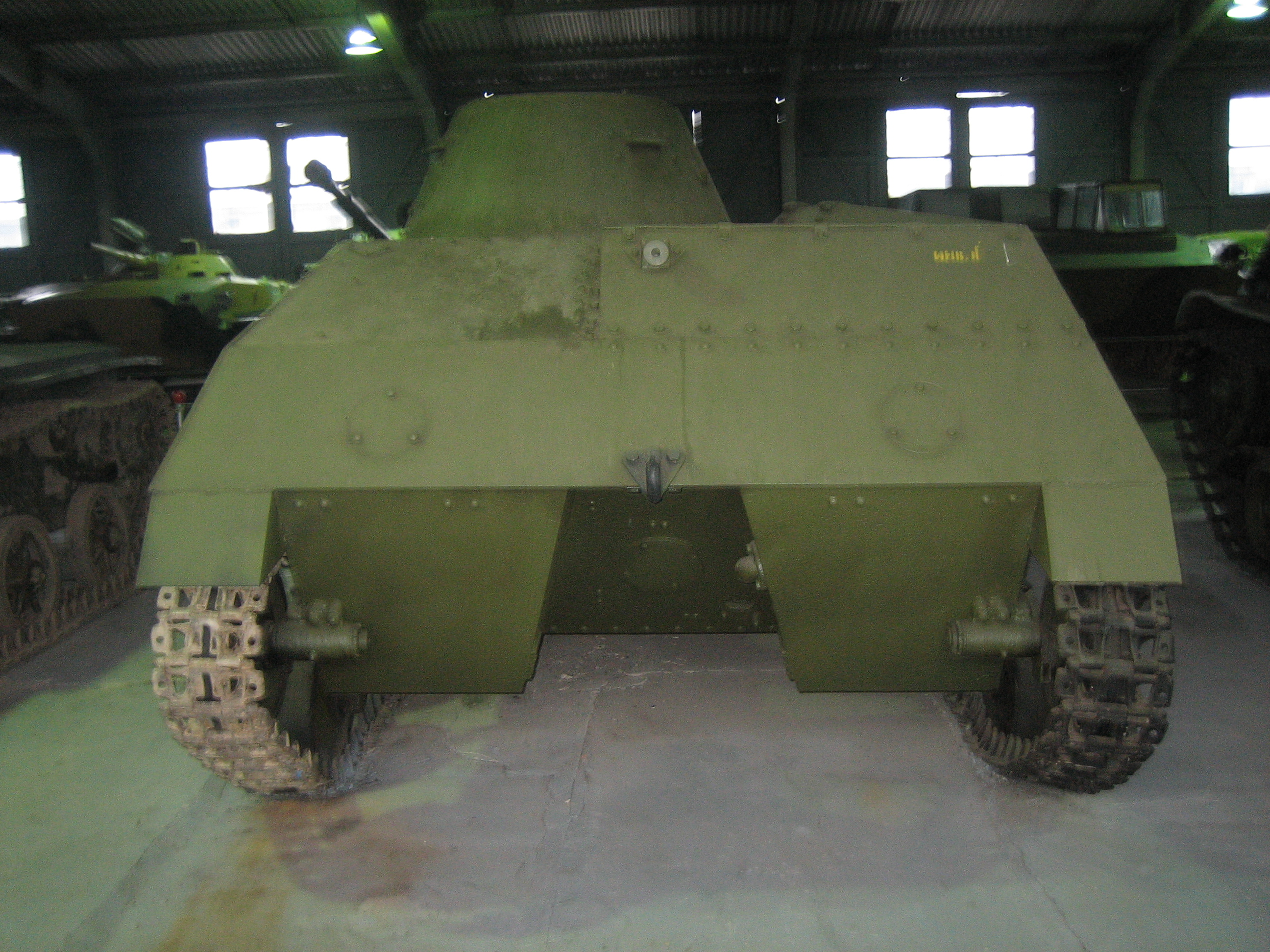 Soviet light infantry tank T-40, displayed in Kubinka Tank Museum. Photo taken on September 23, 2006. Source: Photo by me, User:Saiga20K.